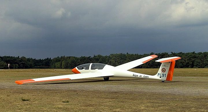 A Grob G103 Twin Astir II from the Royal Belgian Air Cadets